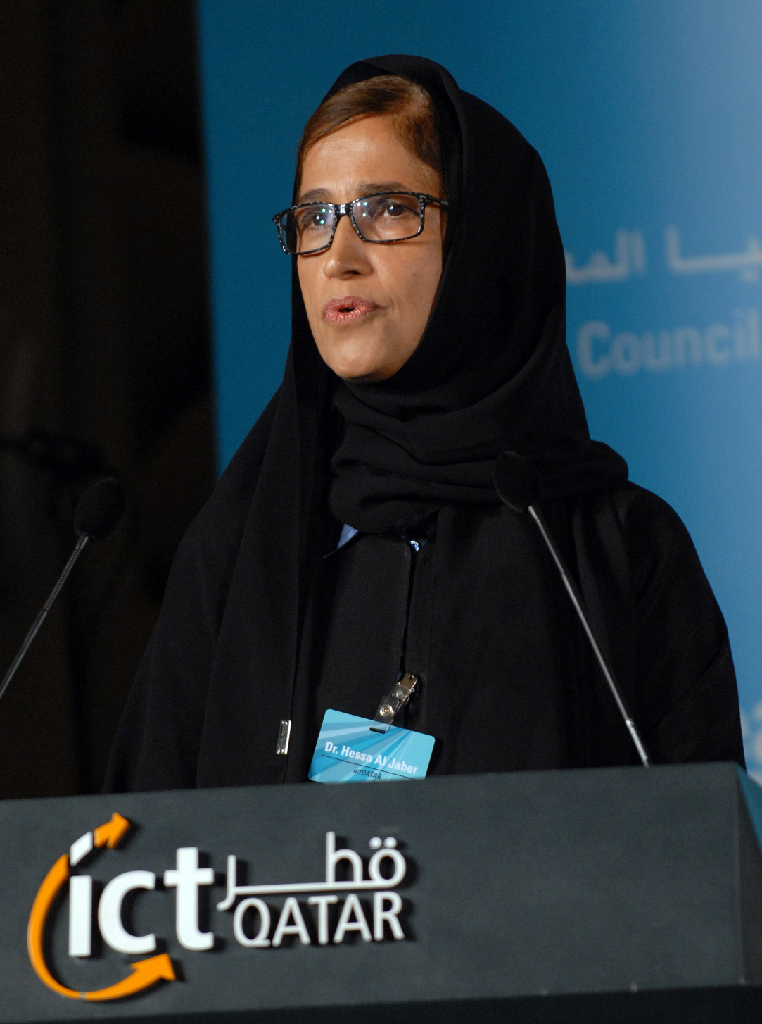 Dr. Hessa Al Jaber, Secretary General of ictQATAR. Dr. Hessa Al Jaber is the Secretary General of the Supreme Council of Information and Communication Technology, ictQATAR. In her nearly six years of leadership at ictQATAR, Dr. Hessa has led Qatar's ICT strategy across sectors, spearheading major initiatives in government, education and business. She has overseen the liberalization of Qatar's telecommunications market, ushering in an era of choice and competition, and directed the modernization of Qatar's ICT infrastructure. Passionate about ensuring that the benefits of technology reach all sectors, Dr. Hessa has led numerous initiatives to make Qatar a more inclusive society through ICT. She has spearheaded the modernization of Qatar's government through ICT, streamlining processes, making government more transparent and accessible to its people, and also launching an online portal to the government, Hukoomi. She is also leading Qatar's initiative to build the first high-capacity satellite "E'Shail" to be launched in 2012. Dr. Hessa has been instrumental in the creation of Mada, an assistive technology center that serves persons with disabilities in Qatar, as well as initiating a host of national programs that empower women and youth, and protect children online.